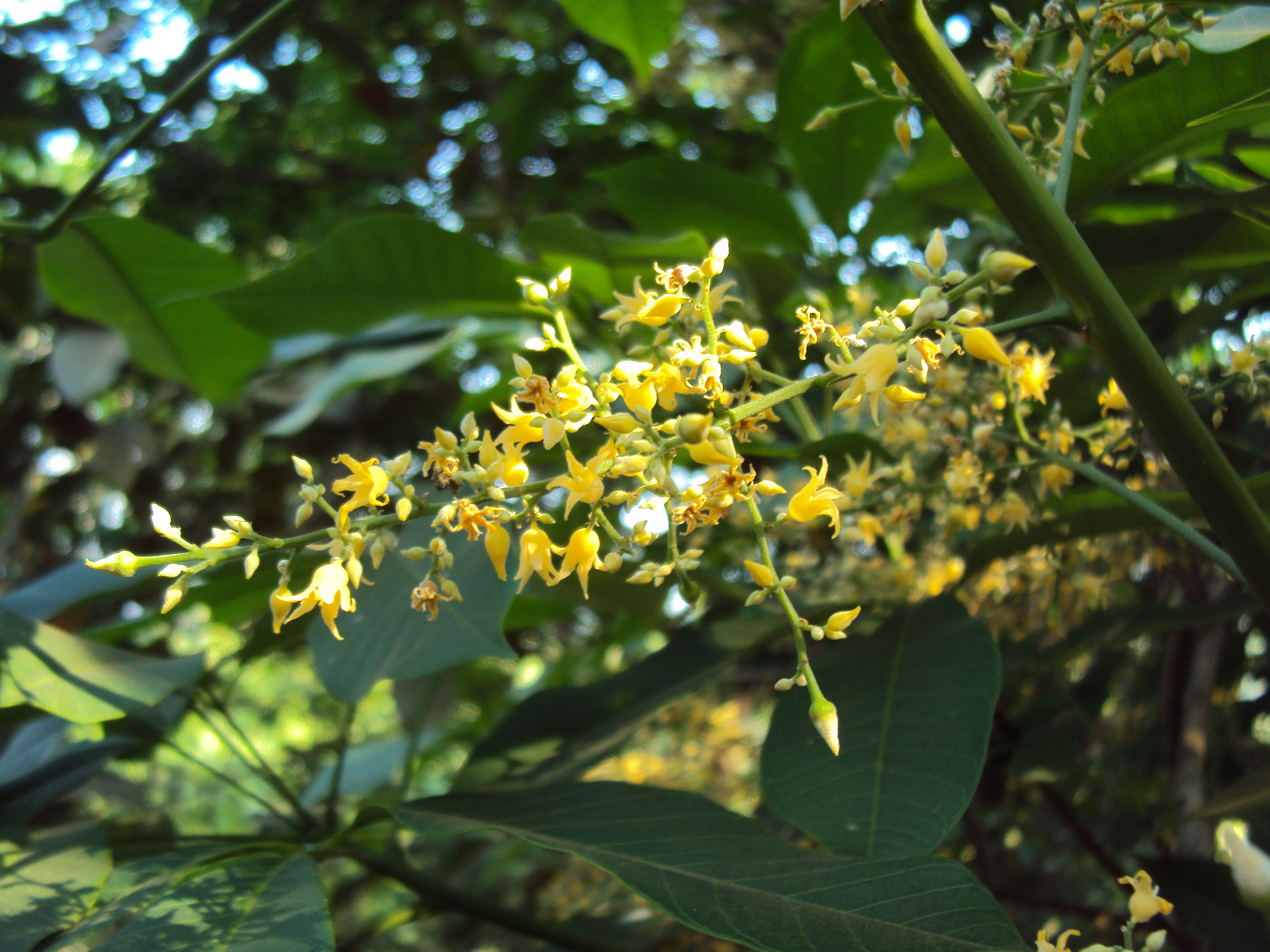 Hevea brasiliensis